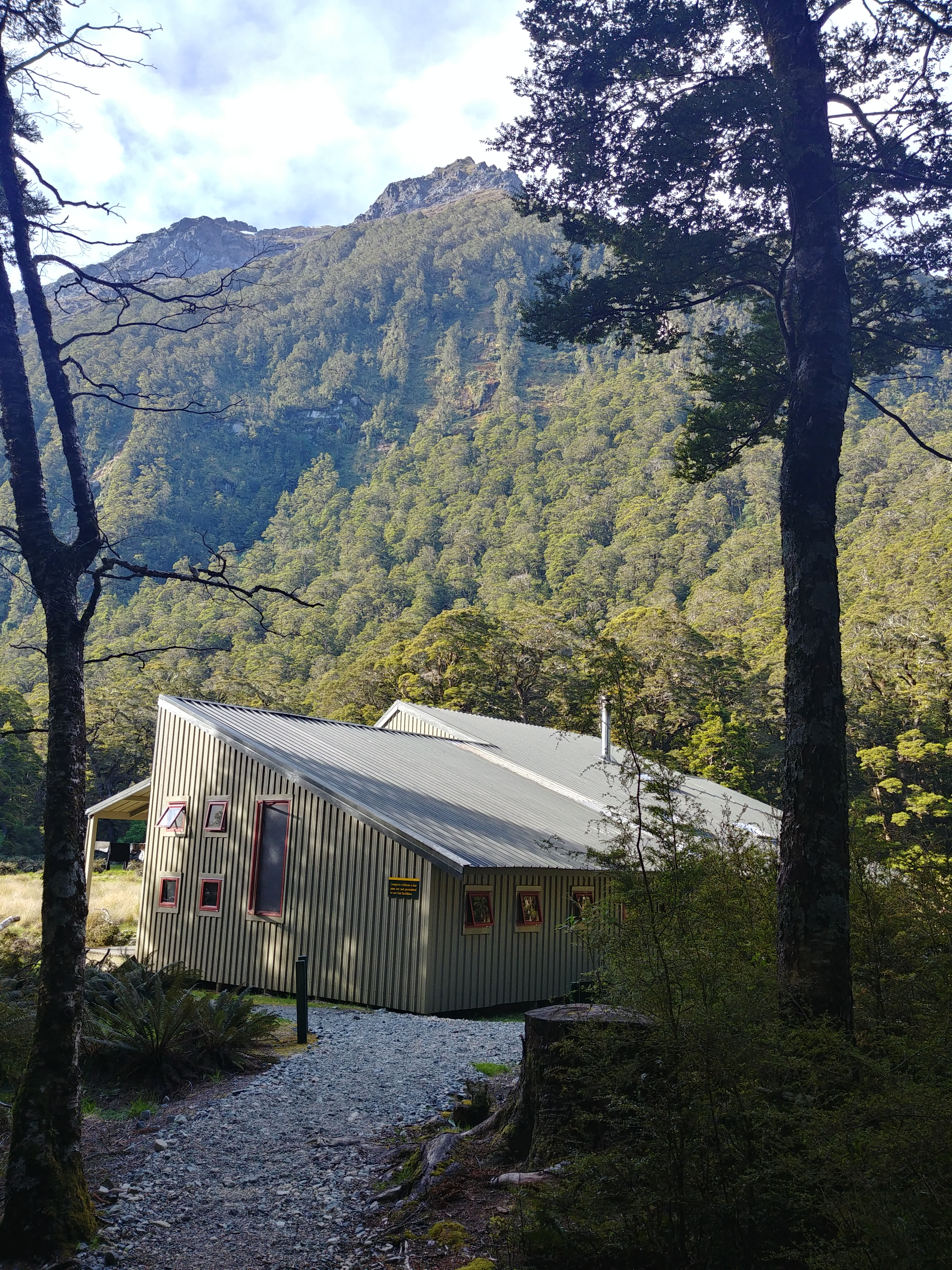 Iris Burn Hut, on the Kepler Track, Fiordland National Park, New Zealand.